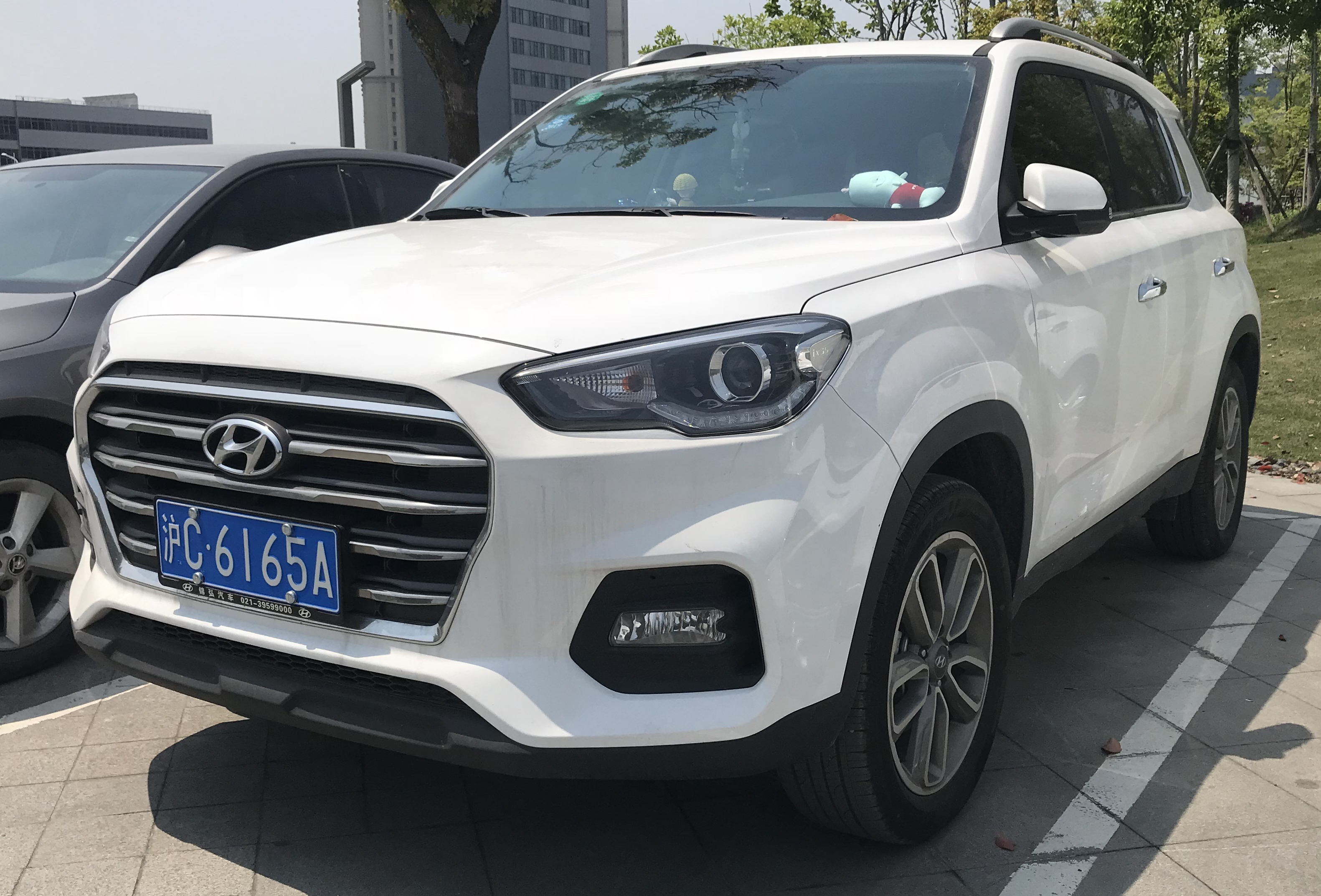 Hyundai ix35 II China